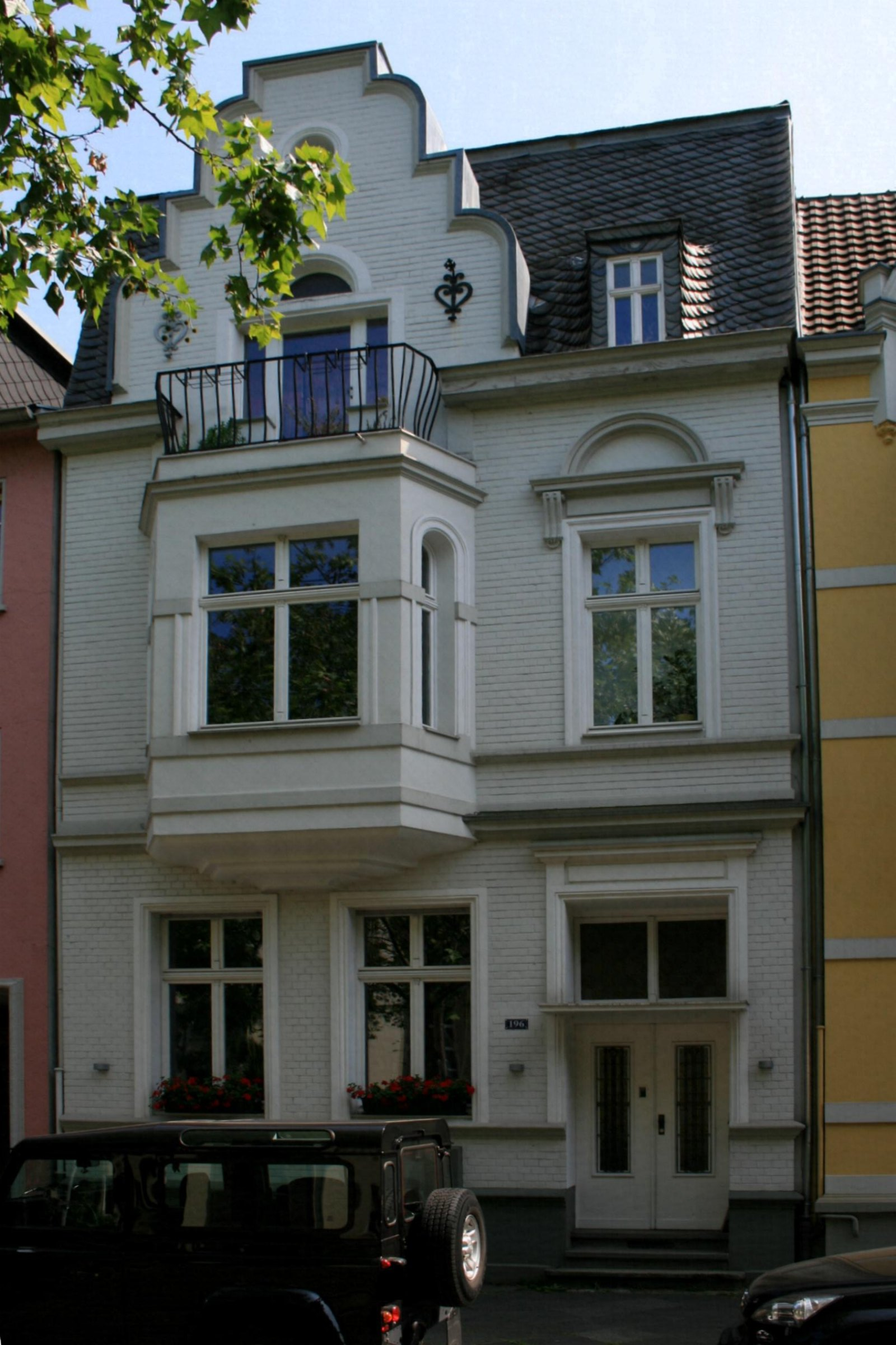 Cultural heritage monument No. B 103 in Mönchengladbach